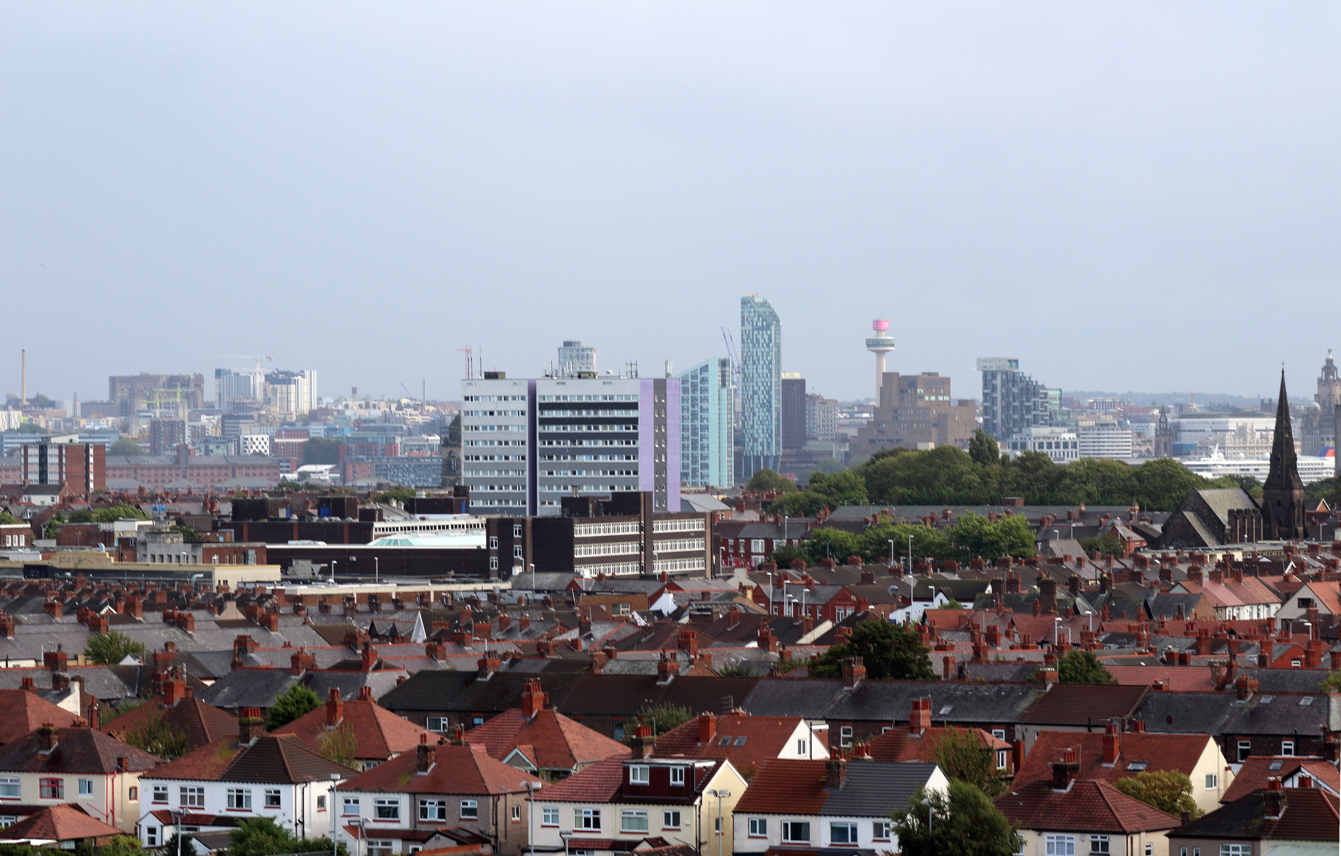 View across the roofs of Wallasey towards Princes Dock, Liverpool.